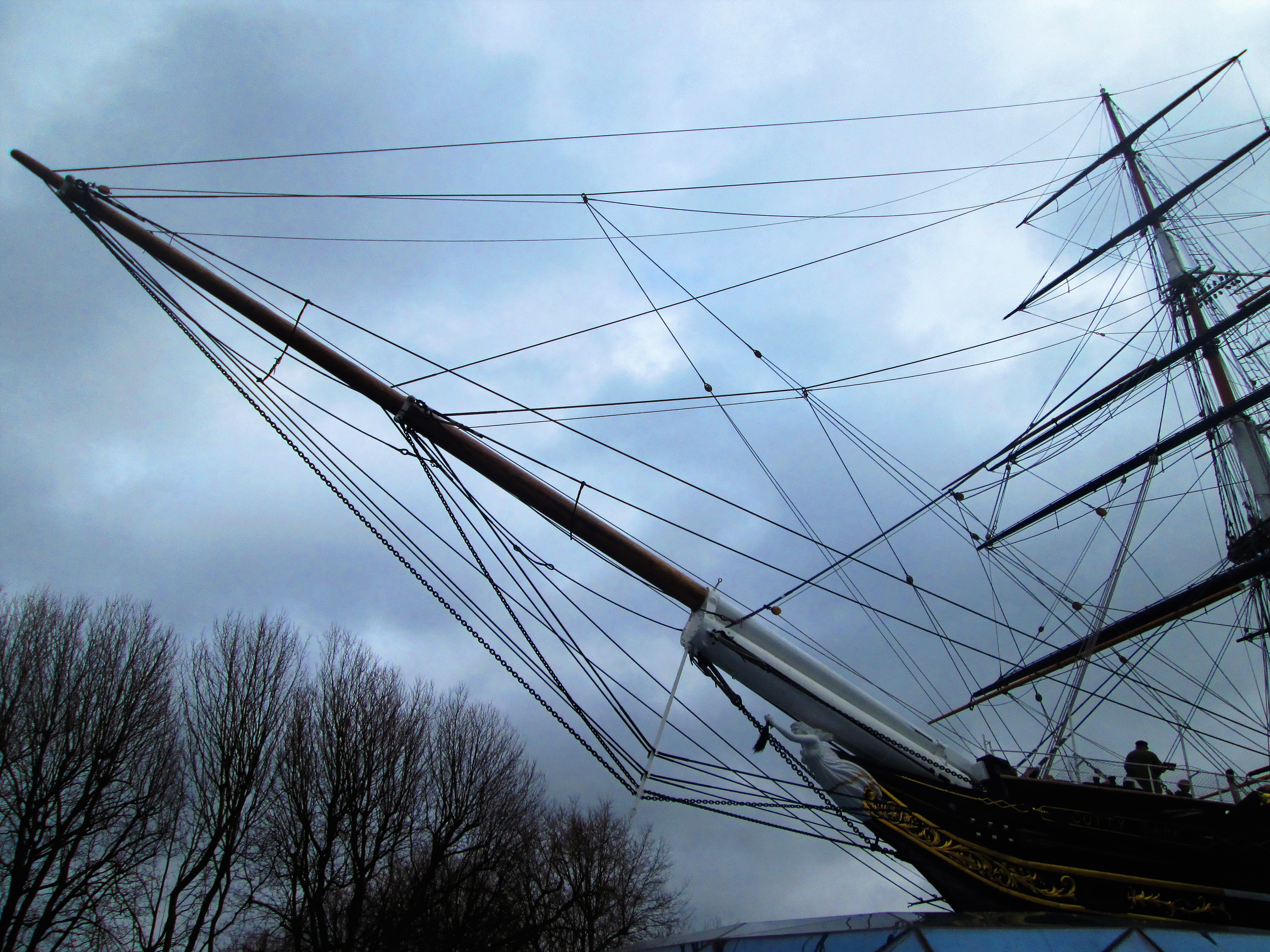 Cutty Sark Wikidata has entry Q171255 with data related to this item.